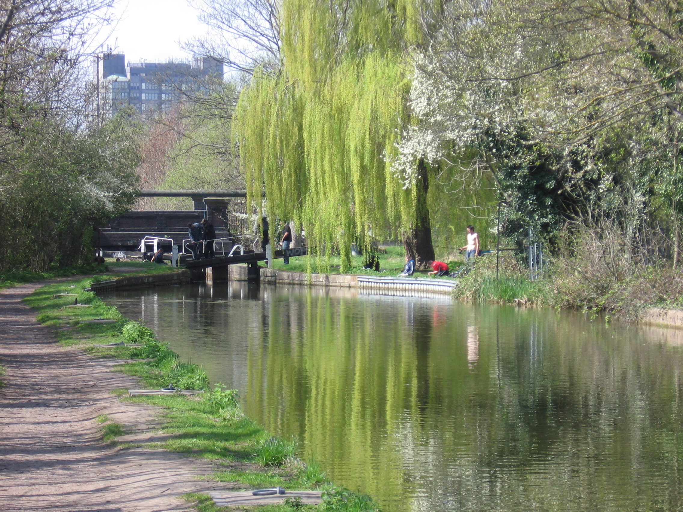 The Grand Union Canal, Aylesbury Branch. View towards the town centre.